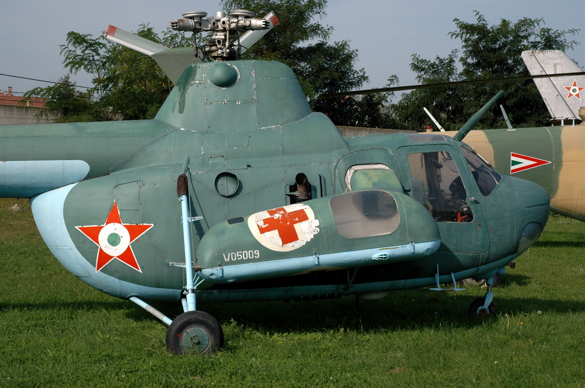 Mil Mi-1M (Museum of Hungarian Aviation, Szolnok)